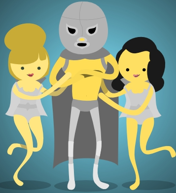 Cartoon of El Santo.